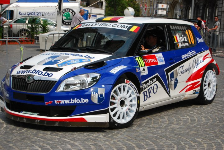 Skoda Fabia S2000 Evo 2 Freddy Loix 2010 Ypres